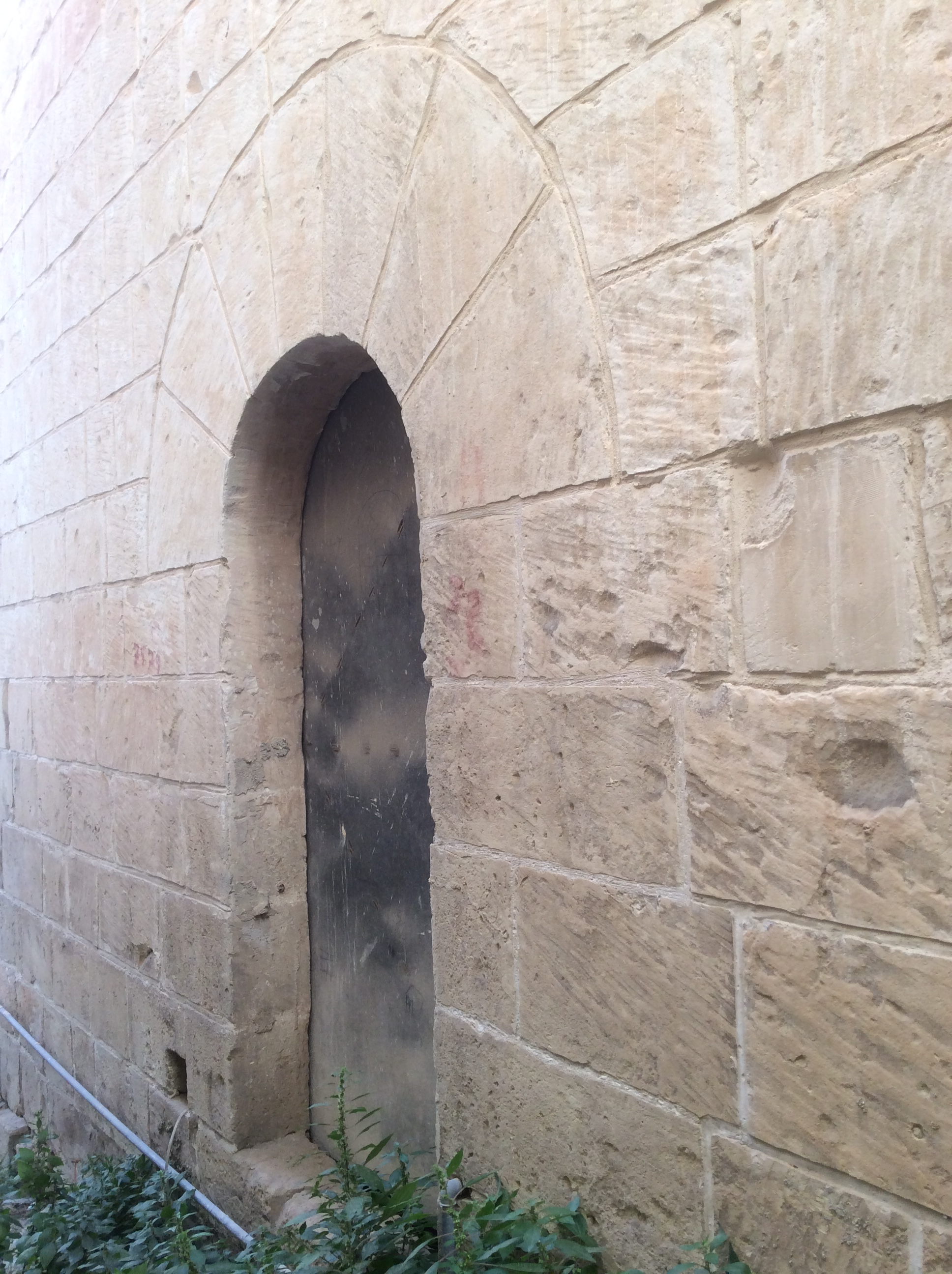 Wejter Tower entrance